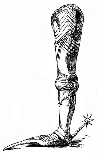 Leg Armour